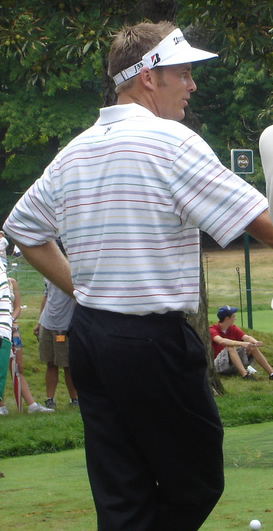 Stuart Appleby during a practice round for the 2005 PGA Championship at Baltusrol.